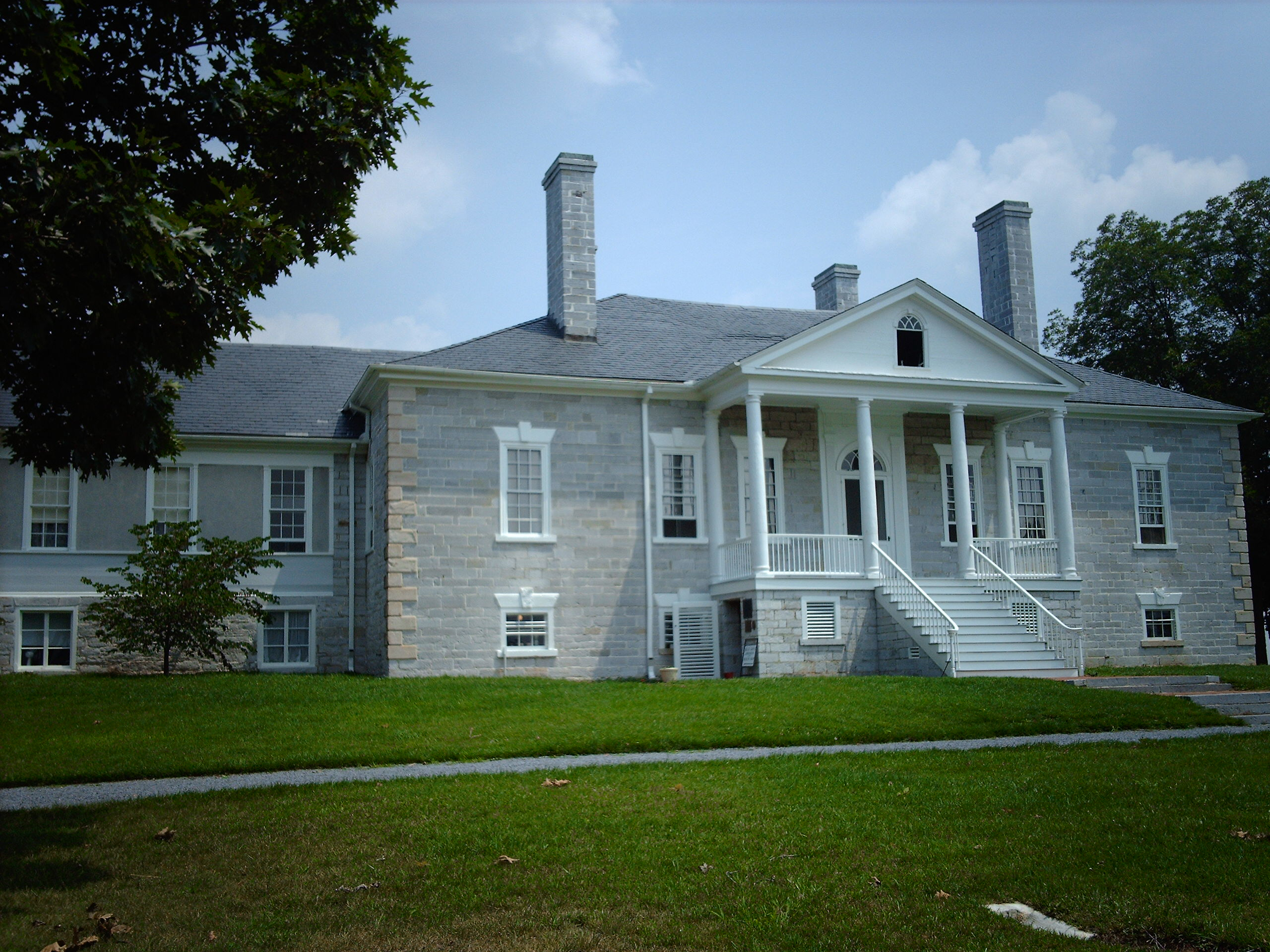 Belle Grove Plantation